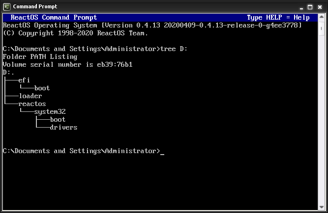 tree command on ReactOS-0.4.13